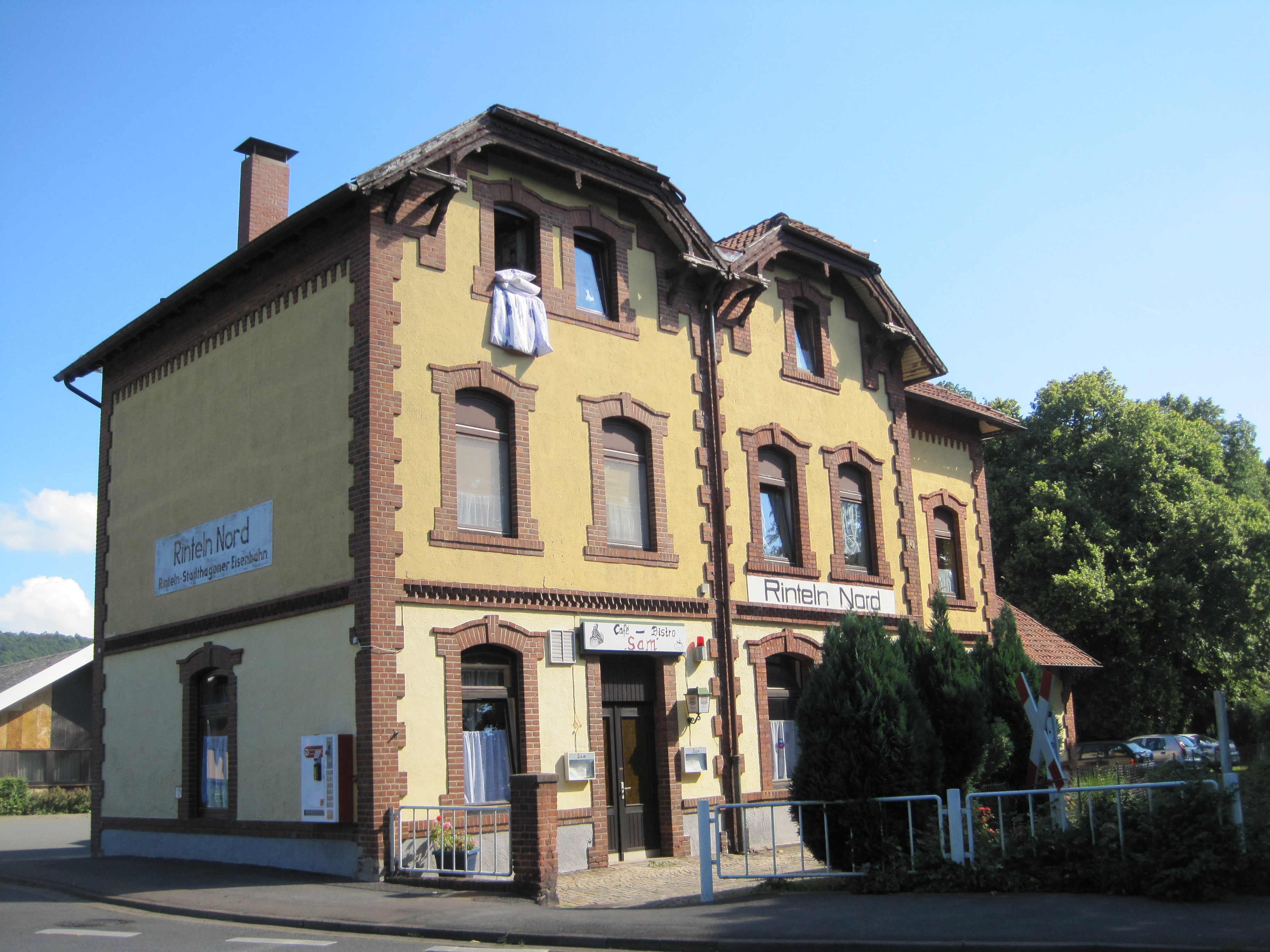 Train station Rinteln Nord, Rinteln, Germany check usage